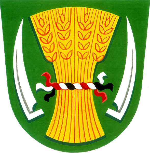 Municipal coat of arms of Pacetluky village, Kroměříž District, Czech Republic.